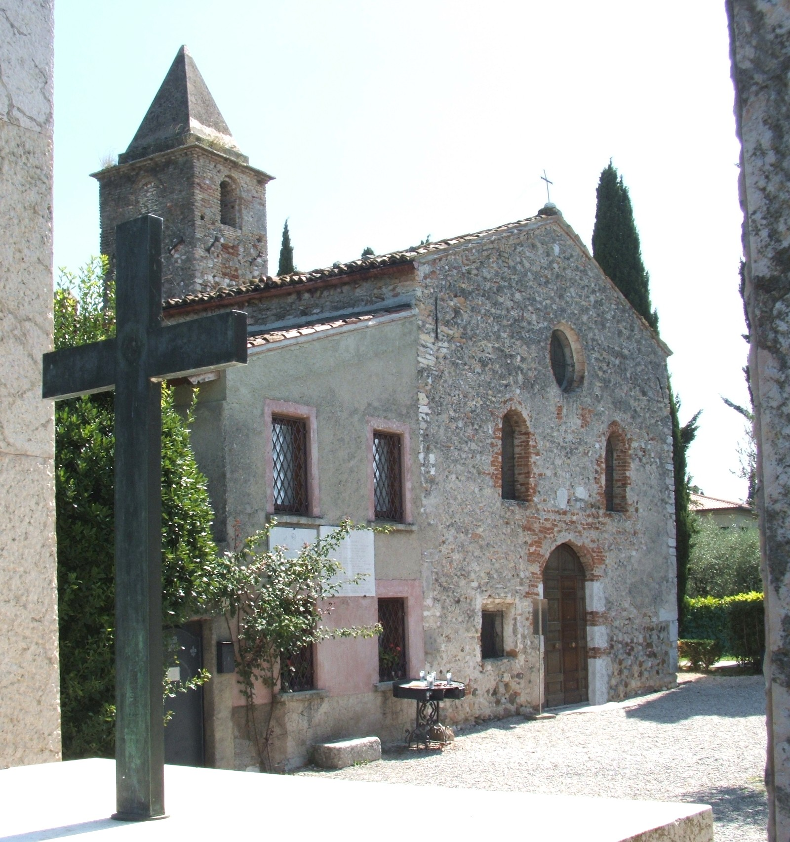 Sirmione (BS) - Italy - saint Peter in Mavino - outdoor